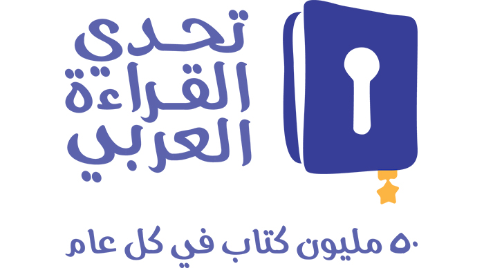 شعار تحدي القراءة العربي